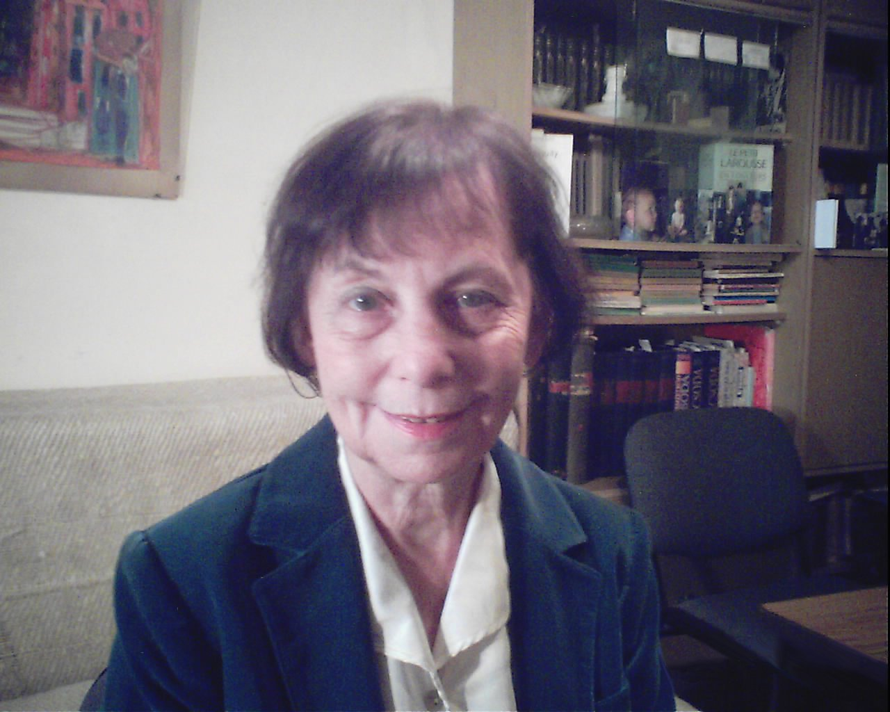 Gabriella Csire authoress